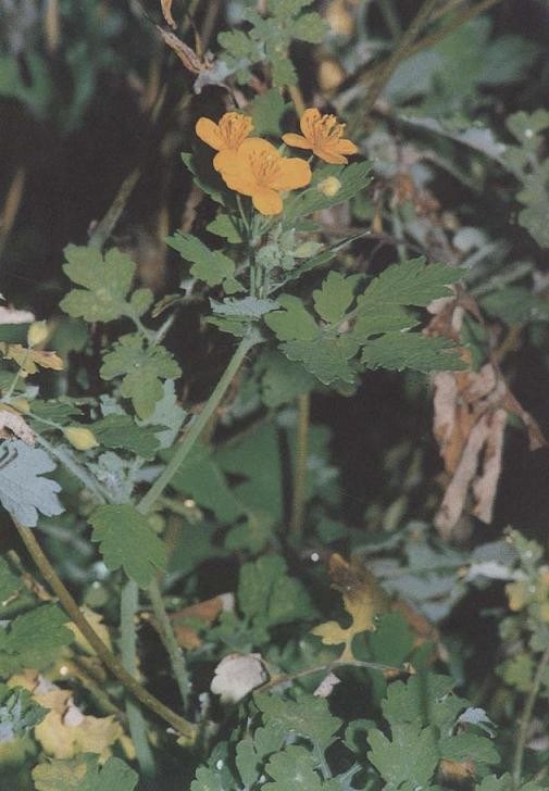 Chelidonium majus